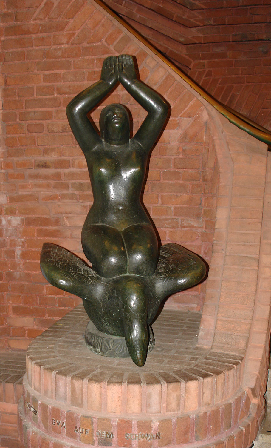 Bernhard Hoetger's sculpture Eva auf dem Schwan (Eve on the swan, 1906, bronze). Located in the Paula-Becker-Modersohn-house.